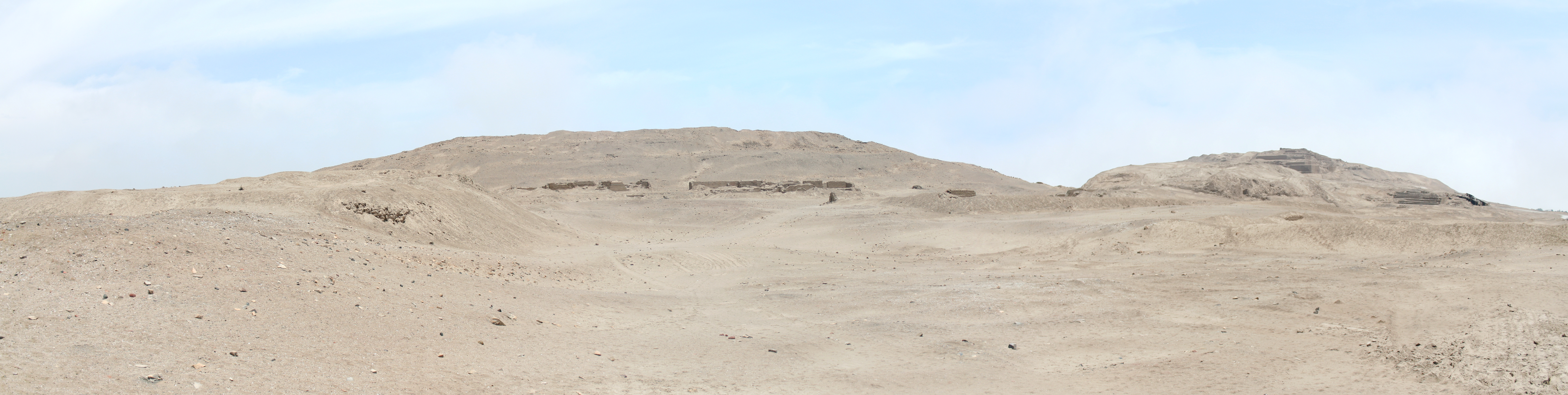 Templo del Sol, Templo Viejo, Templo Pintado - Pachacamac, Peru